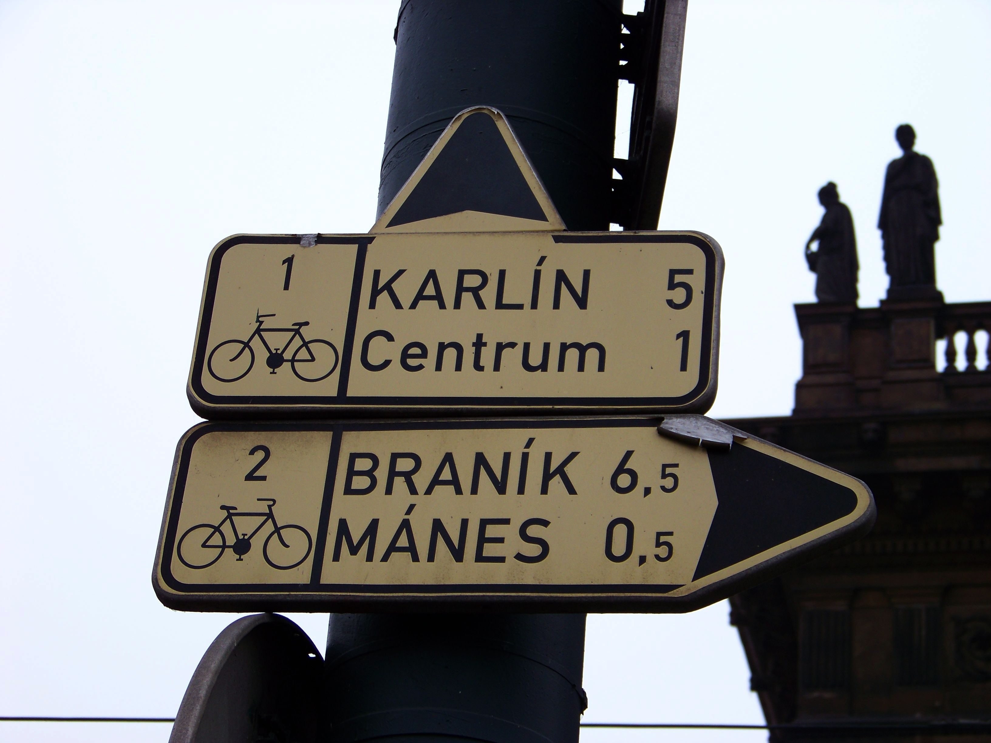 Prague-Old Town and New Town, the Czech Republic. Masarykovo nábřeží, the main cycling fingerpost, at the National Theatre.